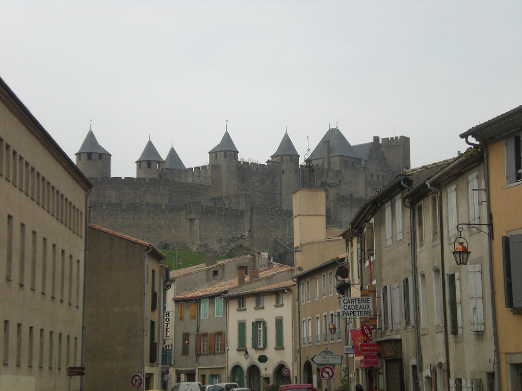 The view of the medieval city of Carcassonne from the newer part known as La Bastide St Louis.